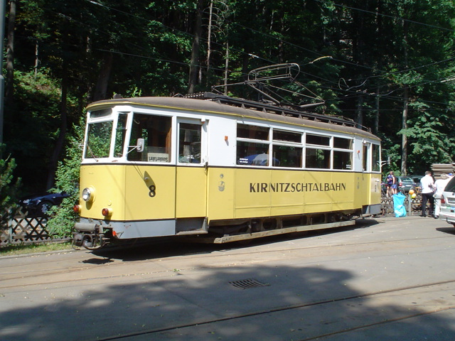 Historic tram 8 of the Kirnitzschtalbahn at the depot in Bad Schandau. It was built by Gotha in 1938 and was acquired secondhand from the Dresden Lockwitztalbahn in 1977, but from 1938–67 operated in Erfurt.